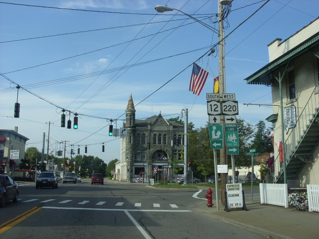 Southern terminus of the New York State Route 12 and New York State Route 220 overlap in the village of Oxford, New York.